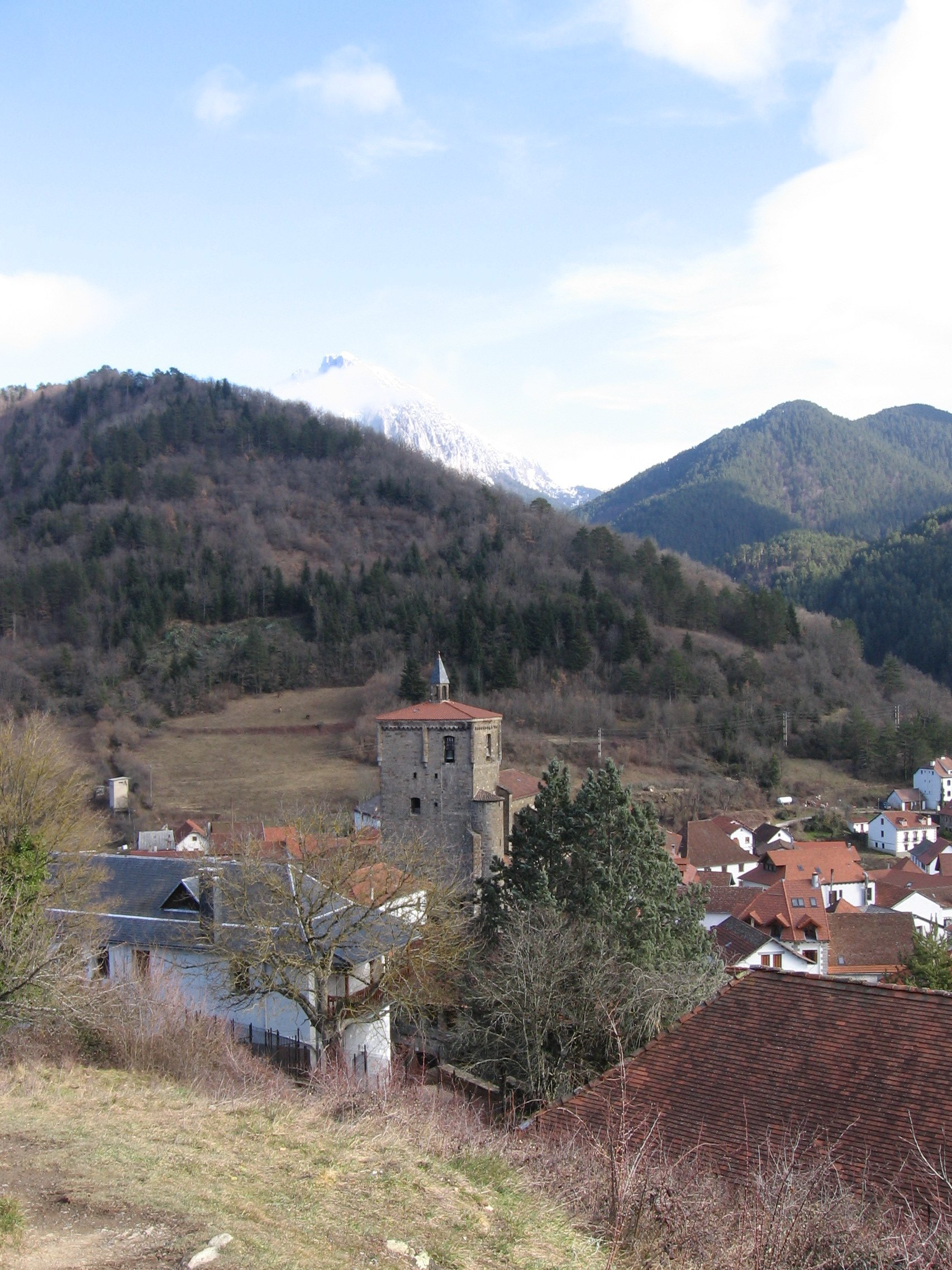 View to Isaba, Navarra, Spain